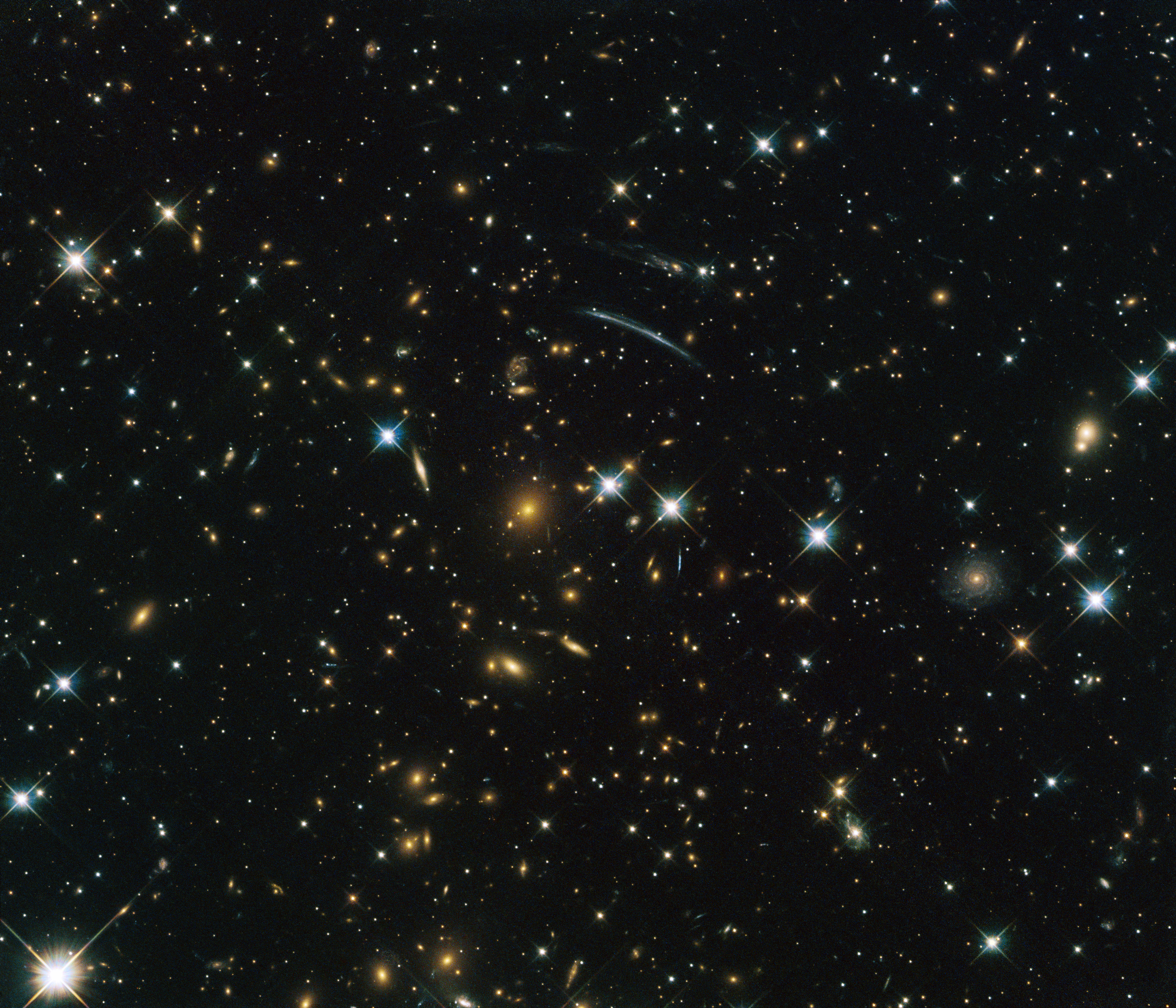 This image from the NASA/ESA Hubble Space Telescope shows the galaxy cluster PLCK G004.5-19.5. It was discovered by the ESA Planck satellite through the Sunyaev-Zel’dovich effect — the distortion of the cosmic microwave background radiation in the direction of the galaxy cluster, by high energy electrons in the intracluster gas. The large galaxy at the centre is the brightest galaxy in the cluster and the dominant object in this image, and above it a thin, curved gravitational lens arc is visible. This is caused by the gravitational forces of the cluster bending the light from stars and galaxies behind it, in a similar way to how a glass lens bends light. Several stars are visible in front of the cluster — recognisable by their diffraction spikes — but aside from these, all other visible objects are distant galaxies. Their light has become redshifted by the expansion of space, making them appear redder than they actually are. By measuring the amount of redshift, we know that it took more than 5 billion years for the light from this galaxy cluster to reach us. The light of the galaxies in the background had to travel for even longer than that, making this image an extremely old window into the far reaches of the Universe. This image was taken by Hubble’s Advanced Camera for Surveys (ACS) and Wide-Field Camera 3 (WFC3) as part of an observing programme called RELICS (Reionization Lensing Cluster Survey). RELICS imaged 41 massive galaxy clusters with the aim of finding the brightest distant galaxies for the forthcoming NASA/ESA/CSA James Webb Space Telescope (JWST) to study.